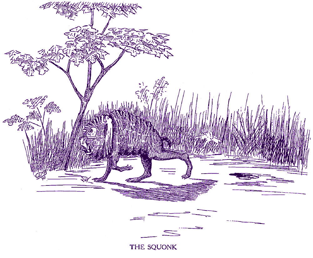 Illustration from "Fearsome Creatures of the Lumberwoods" illustrated by Coert Du Bois and by William T. Cox, 1910 PUBLIC DOMAIN.